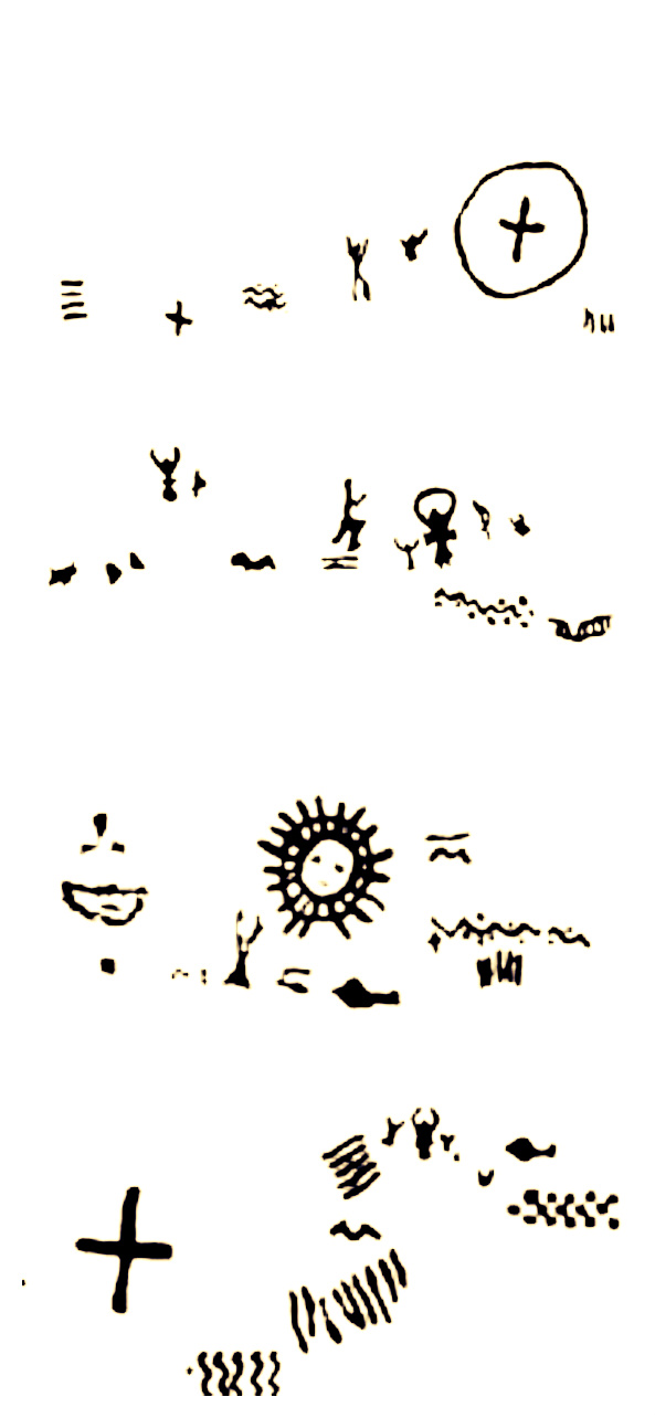 Kalugeritza_petroglyphs_Bailovo_BG